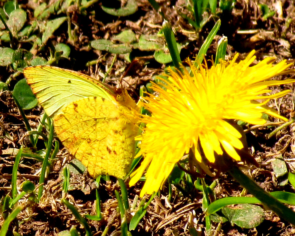 Tailed Sulphur (Phoebis neocypris), Quito, Ecuador